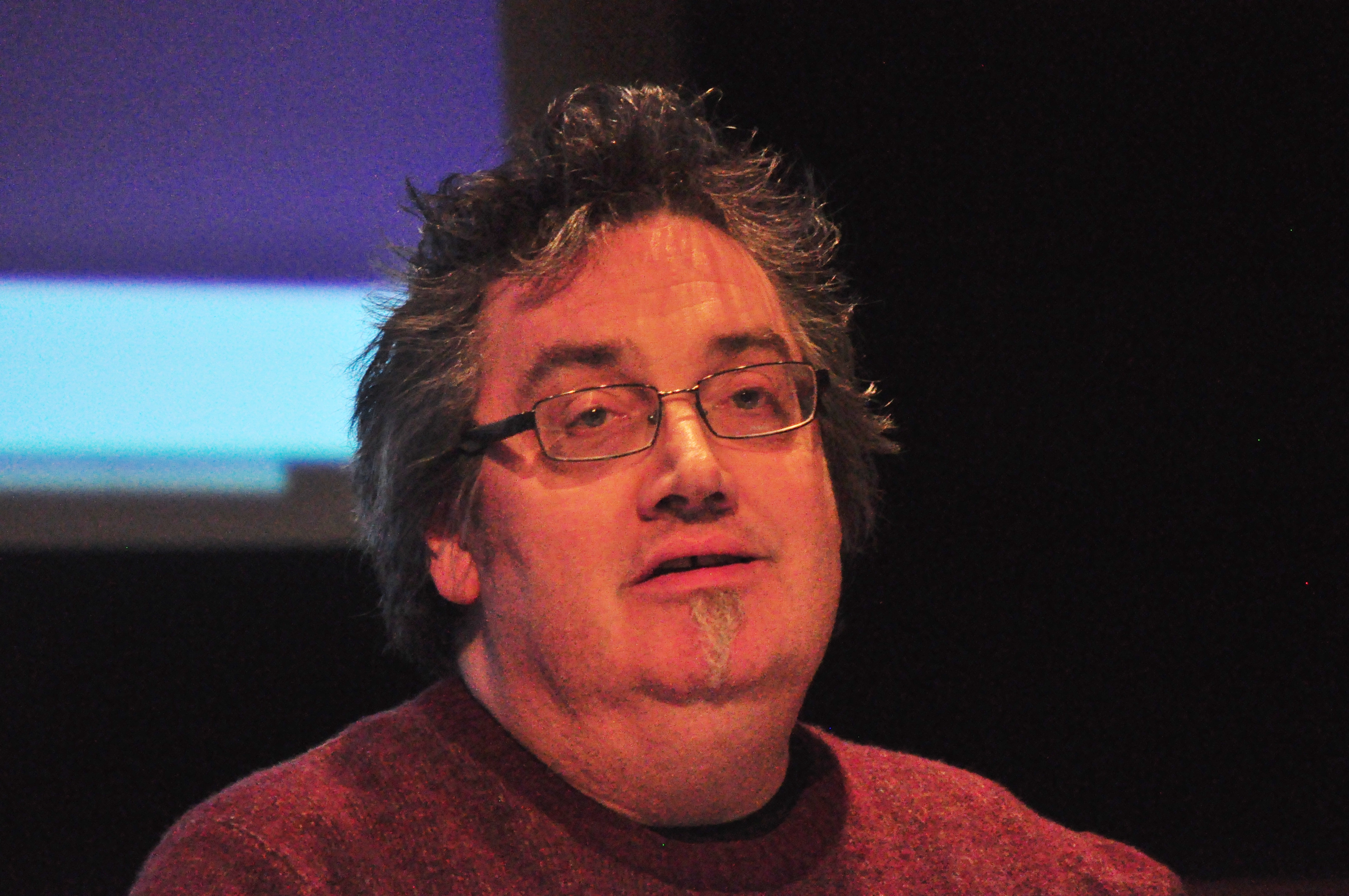 Mark Sinker presenting at the 2014 Pop Conference, EMP Museum, Seattle, Washington, U.S.